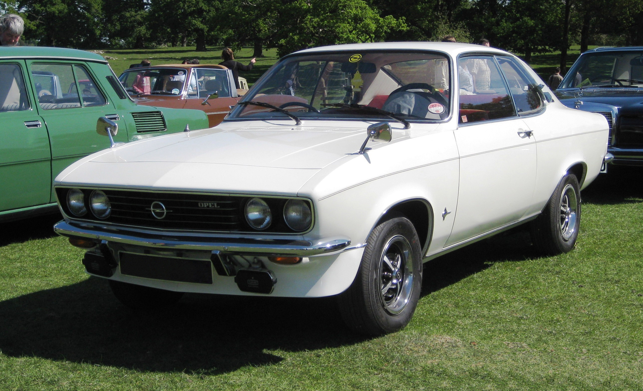 I edited the original image for use on my ad-supported automotive website (Ate Up With Motor), obscuring the numberplate. This is the edited version.